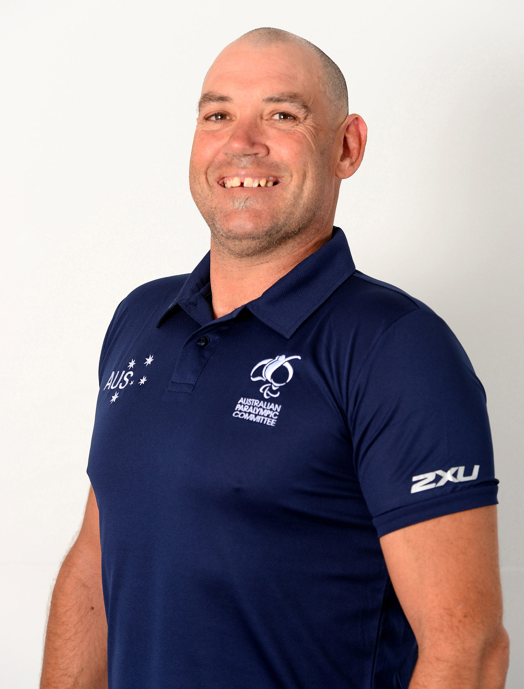 Portrait photograph of Stuart Tripp taken at team processing session for shadow members of 2016 Australian Paralympic team